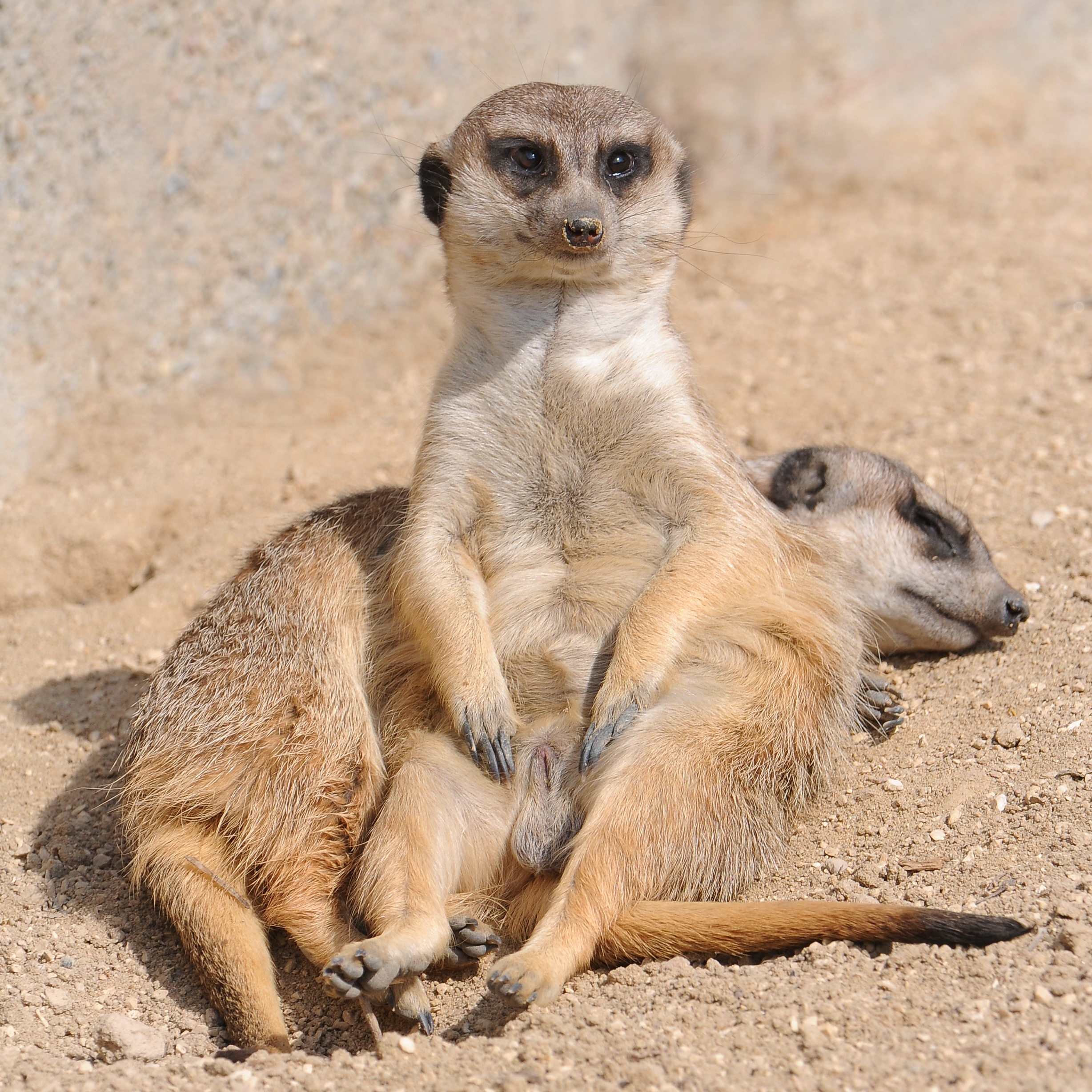 Two Meerkat in Knies Kinderzoo, a zoo in Rapperswil-Jona, Switzerland.